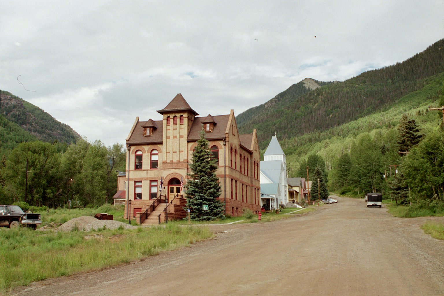 This building serves many different capacities for the community of Rico, Colorado, United States. The Historic County Courthouse building was constructed in 1891 and is listed on the National Register of Historic Places. The old Courtroom upstairs is available for community events, weddings and other meetings.